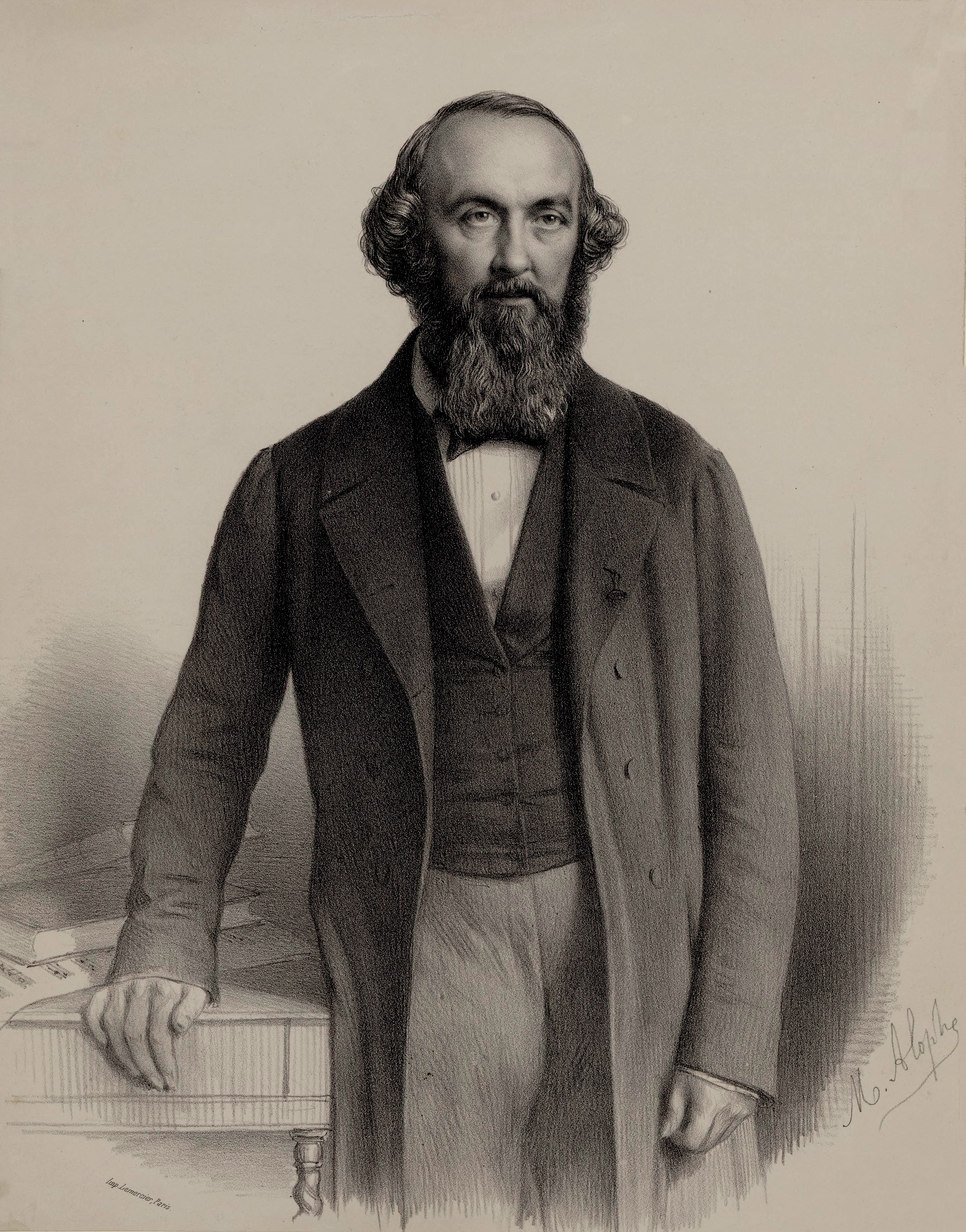 French musicologist and composer Adrien de La Fage (1801-1862) by Marie-Alexandre Alophe (1812-1883).